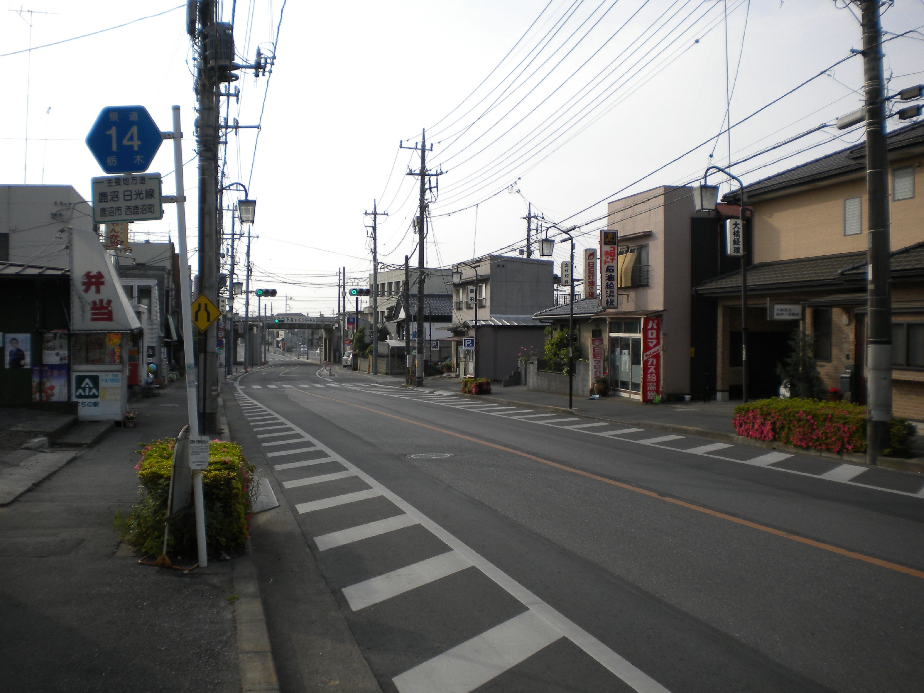 The Tochigi Prefectural Road Route 14 in Nishikanumamachi, Kanuma City